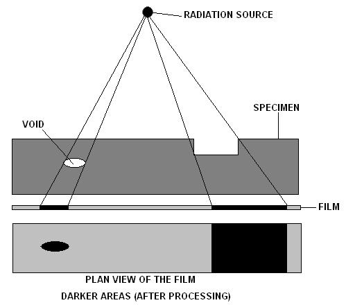 General overview of taking a radiograph and the result on the film after processing. Since the radiograph is a negative, the thinner areas will appear darker. This is similar to that shown in AWS B1.10M Figure 15 - Making a Radiograph